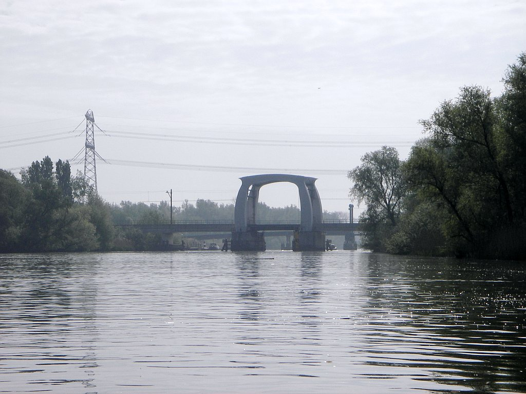 River "Wantij" near Dordrecht in the Netherlands. View on railway bridge